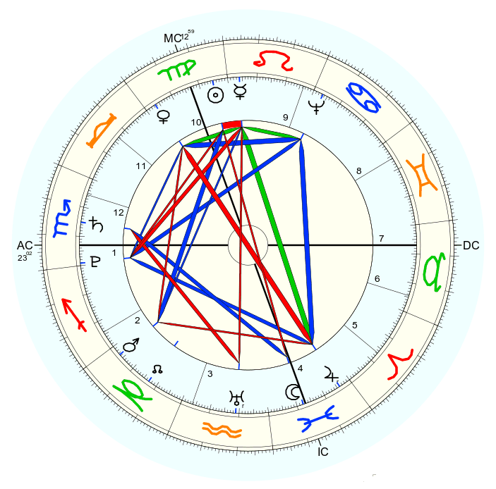 Astrological birth chart for Johann Wolfgang von Goethe, born at Frankfurt am Main (Germany), Thursday, August 28, 1749, 12:30 (time zone = GMT 0.9 hours), 8e40, 50n07